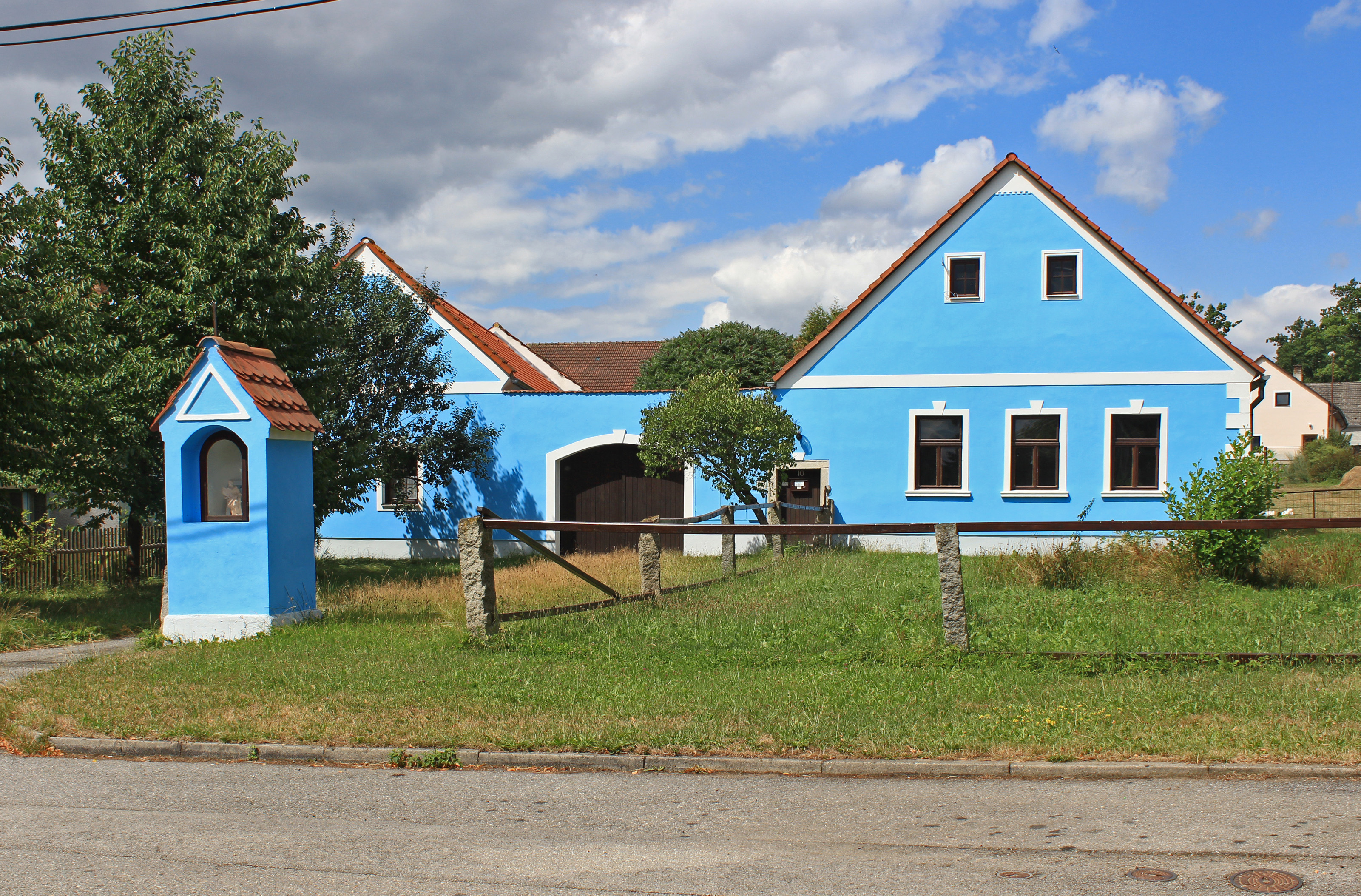 Old farm in Horní Skrýchov, Czech Republic.